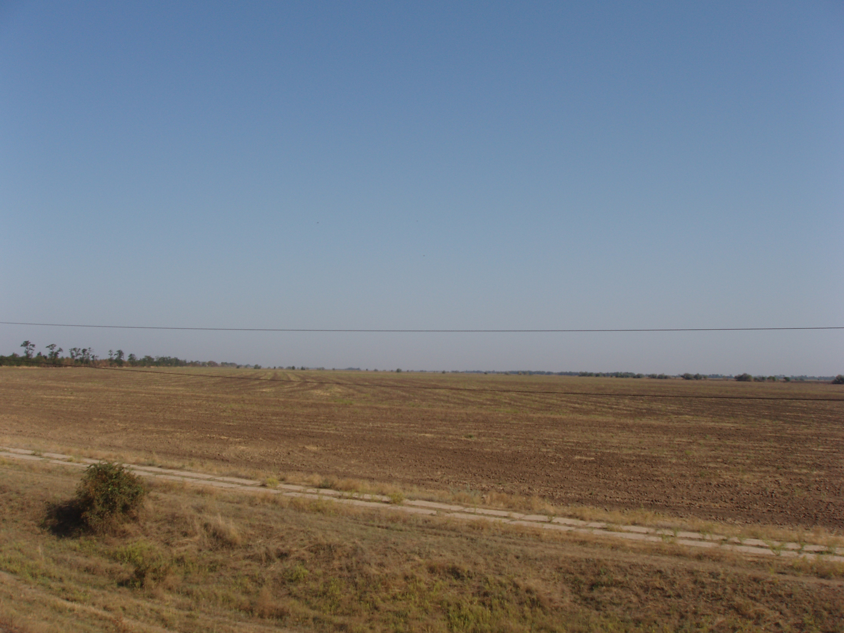 Kherson outskirts